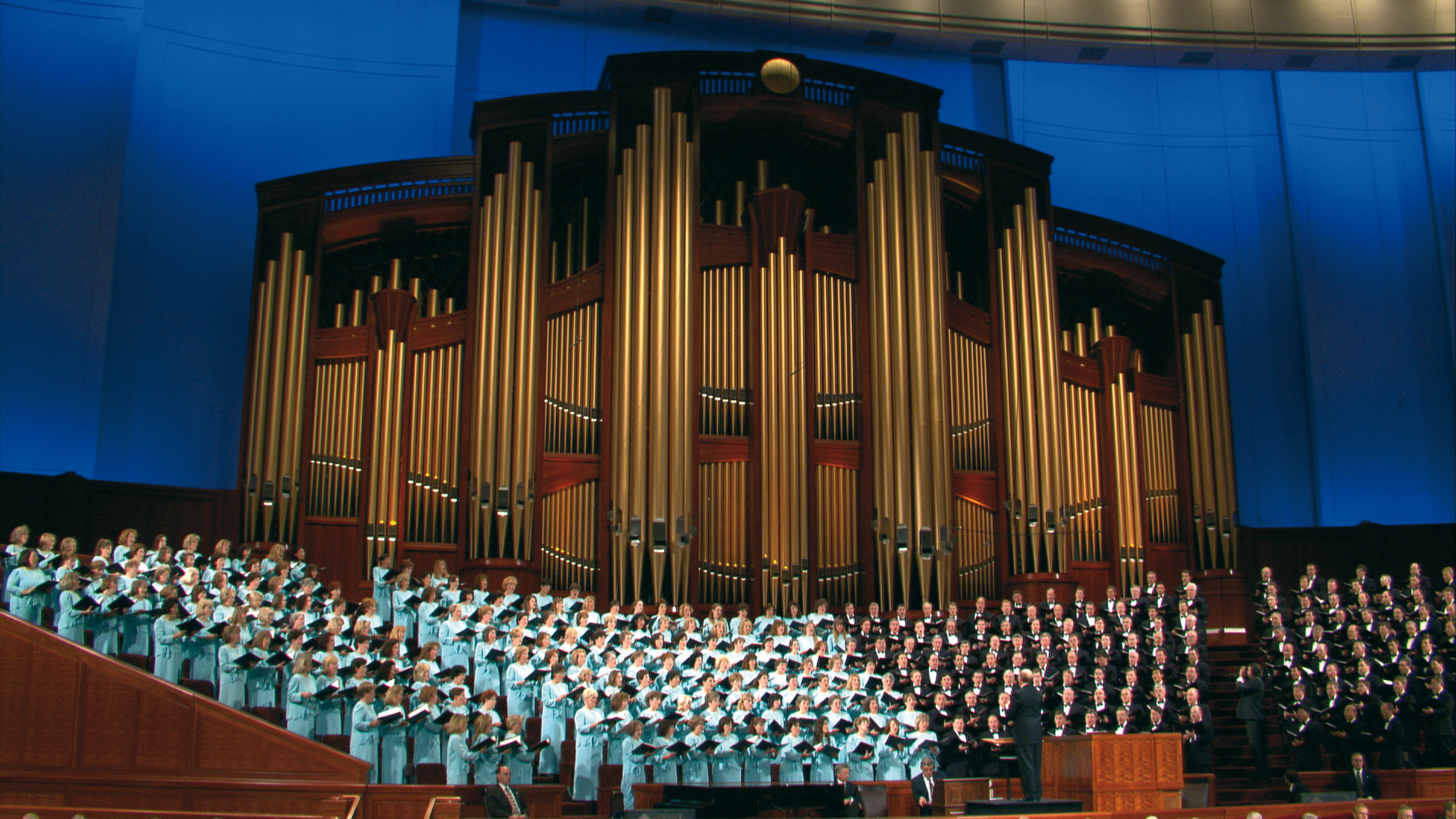 The Mormon Tabernacle Choir perform in the LDS Conference Center during General Conference of The Church of Jesus Christ of Latter-day Saints.